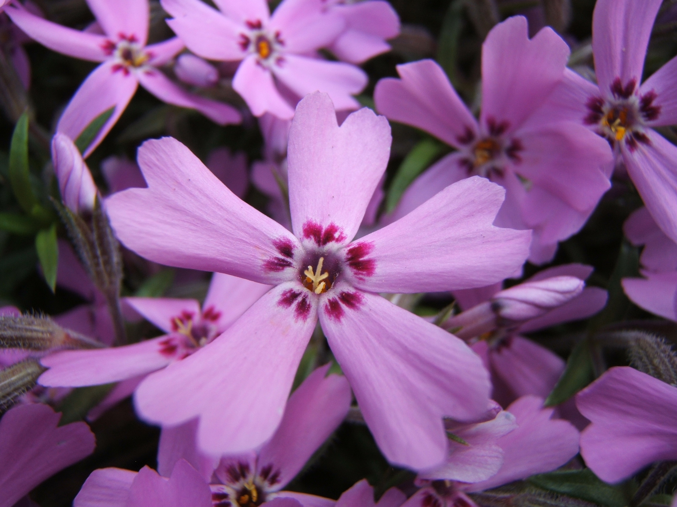 Phlox subulata flower